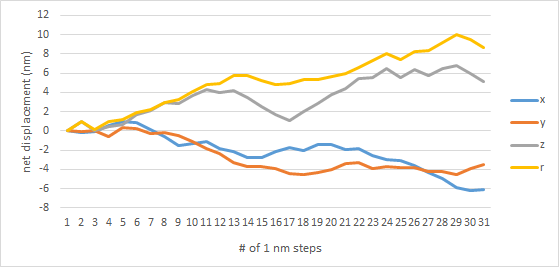 A Monte Carlo simulation of low energy electron travel shows that the electron can travel at least several nanometers after 30 collisions, with 1 nm between each collision. x, y, z refer to distances along the given directions, while r is the total distance. Reference